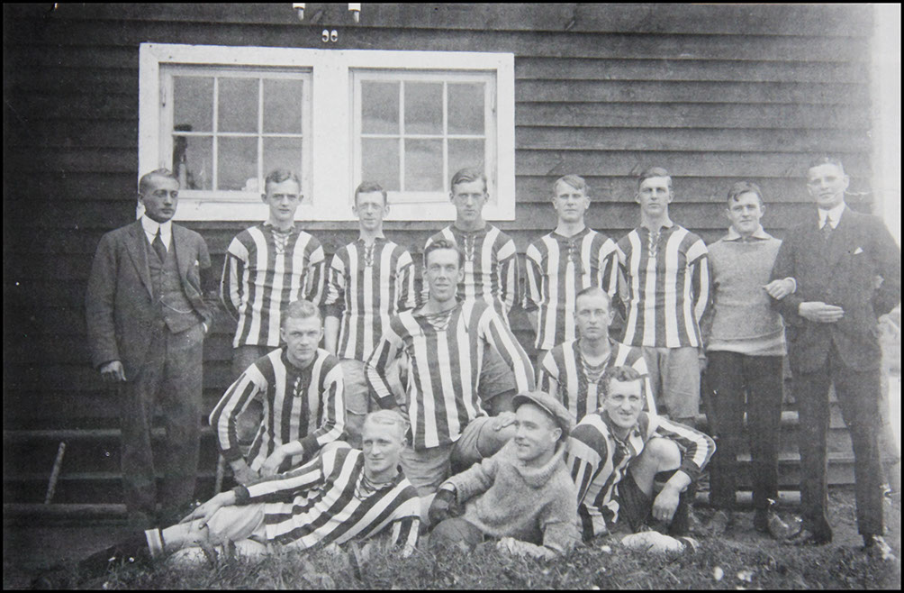 Photograph of players and leaders of Swedish football club IFK Göteborg in 1917. Standing from left: manager Carl ”Ceve” Linde, Rolf Borssén, Caleb Schylander, Herbert Karlsson, Eric Hjelm, Mauritz Sandberg, Sven Rylander (reserve keeper), and team coach Knut ”Knatten” Lindberg. Middle row from left: Carl Olsson, Konrad Törnqvist, and Henry Almén. Front row: Valdus Lund, John Karlsson-Nottorp, and Henning Svensson.